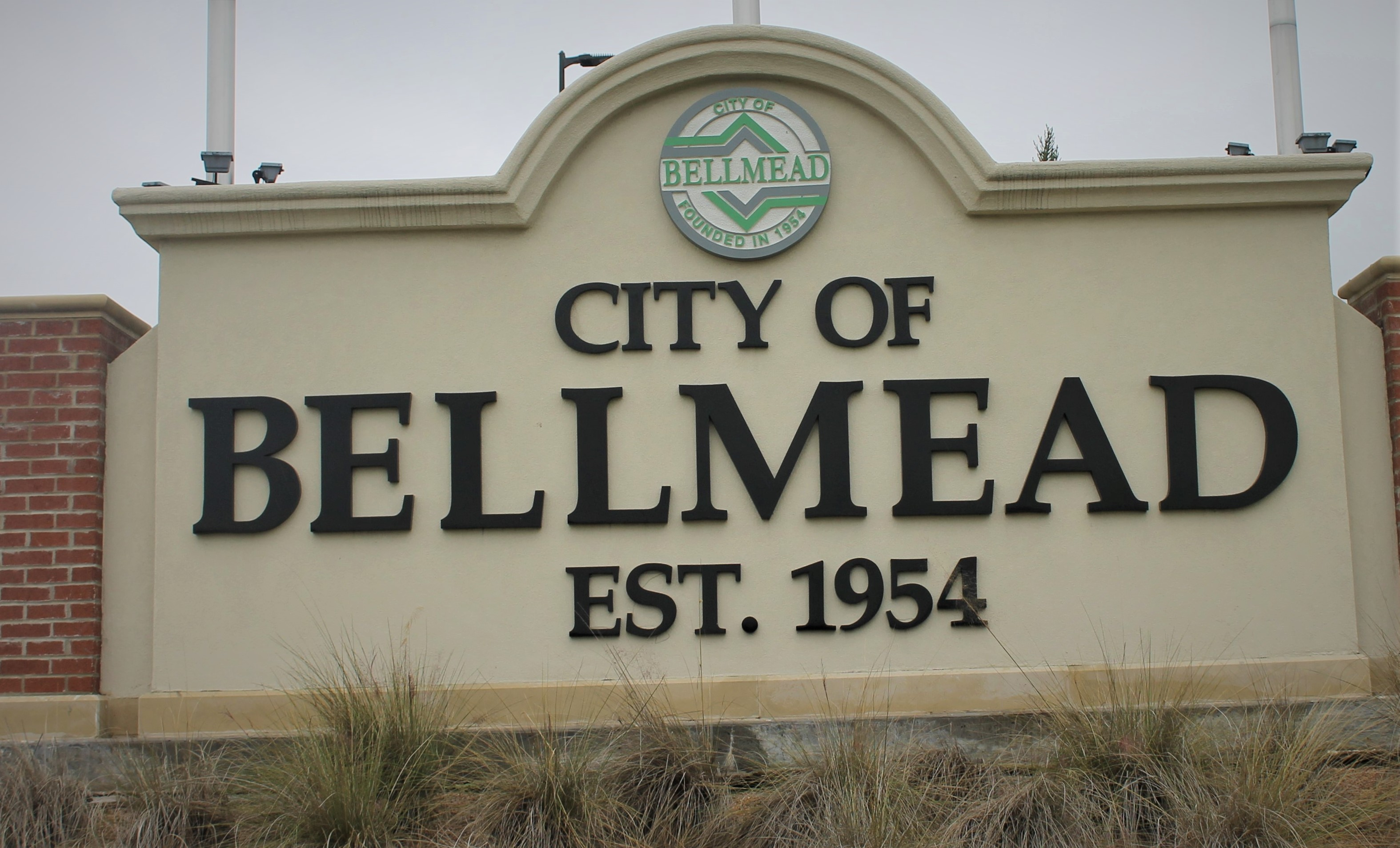 Bellmead, TX, entrance sign